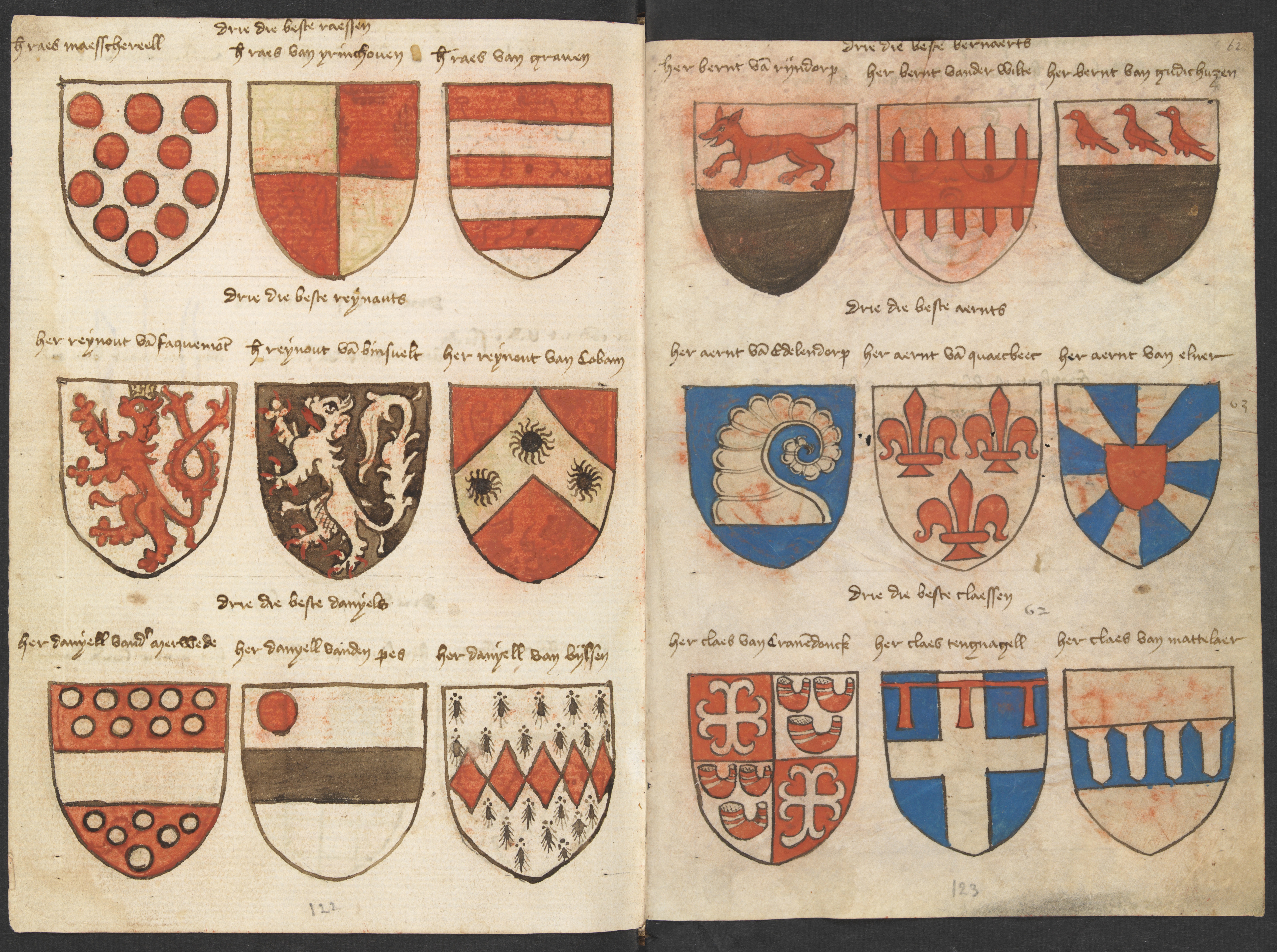 Lefthand side folio 061v; righthand side folio 062r from the Beyeren armorial / Wapenboek Beyeren